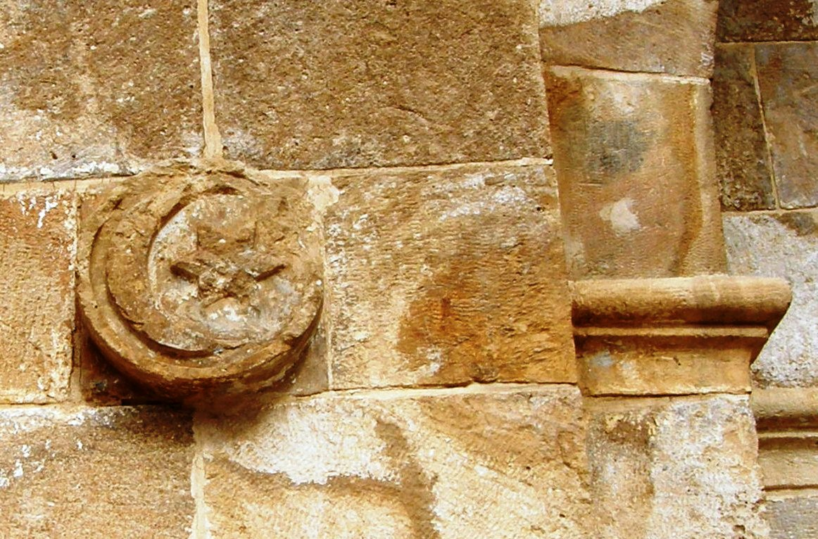 Israel, Good Samaritan Museum, six pointed Star and crescent at the Inn of the Good Samaritan, on the way from Jerusalem to Jericho מצורף הסמל התורכי אלא שבמקום כוכב סיתתו מגן-דוד. כנראה שעוד מישהו שם לב לתופעה זו וניסה להשחית את המגן-דוד, ואולי סתם טעיתי. פרנויה. המקום - אכסניית השומרוני הטוב בדרך ירושלים - יריחו. כל הזכויות שמורות לעודד ישראלי